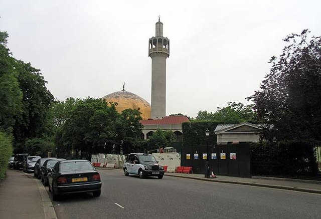 Mosque, Outer Circle, Regent's Park